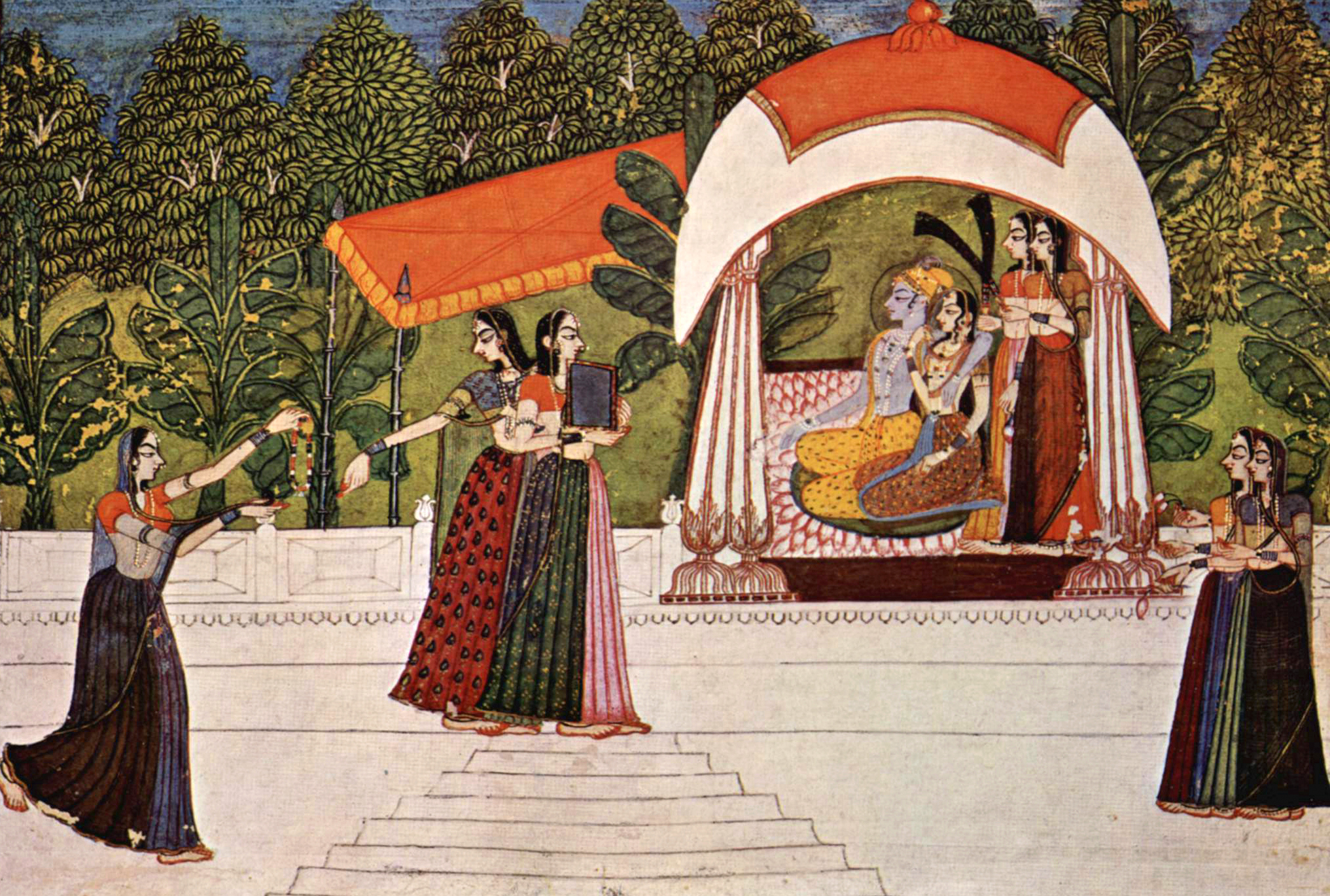 Krishna and Râdhâ in a pavilion (Nihâl Chand)